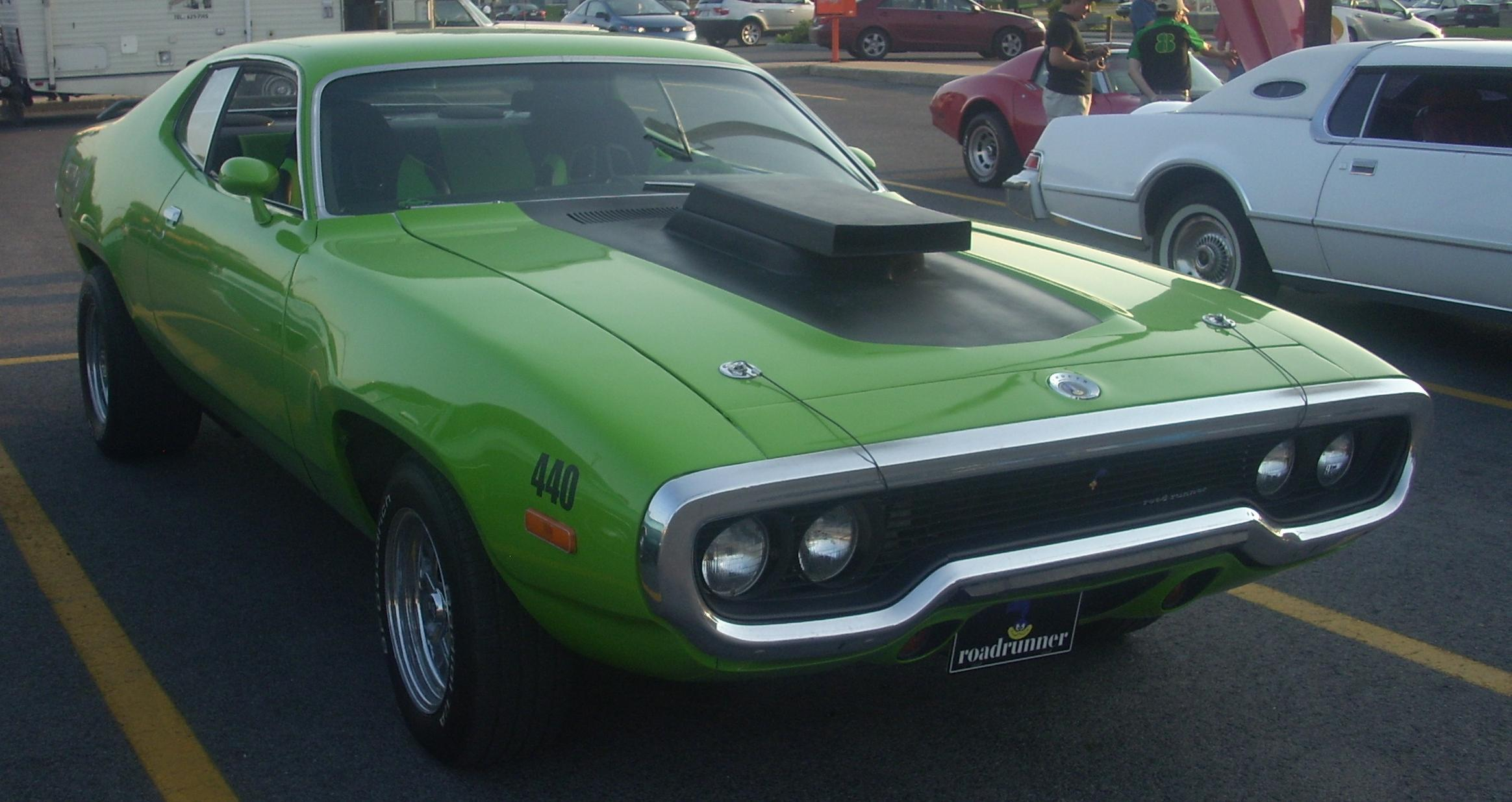 Plymouth Road Runner 440 photographed in Montreal, Quebec, Canada at A&W St-Léonard.